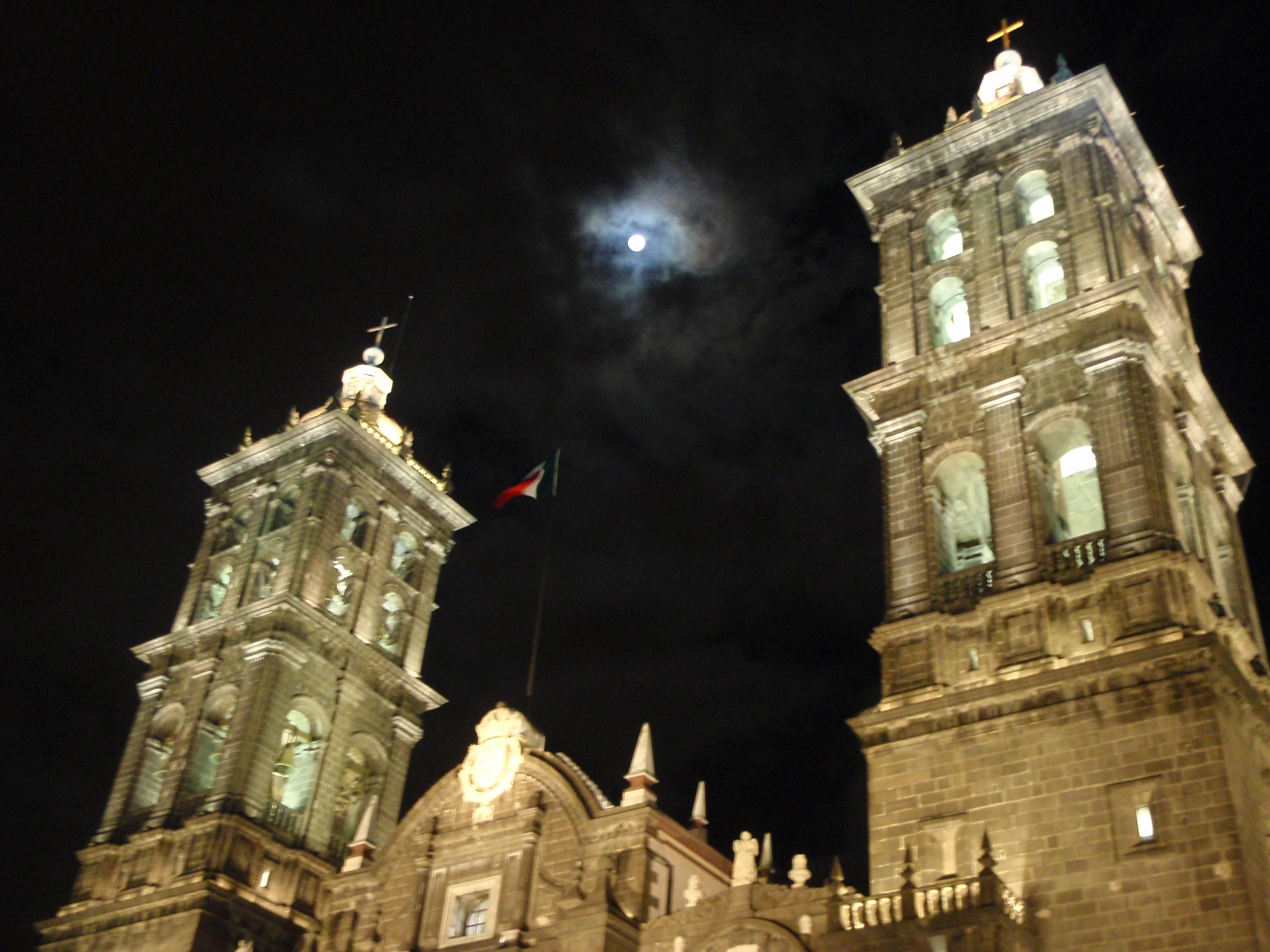 The towers of the Cathedral of Puebla, during the inauguration of the new lightning system in 2010.